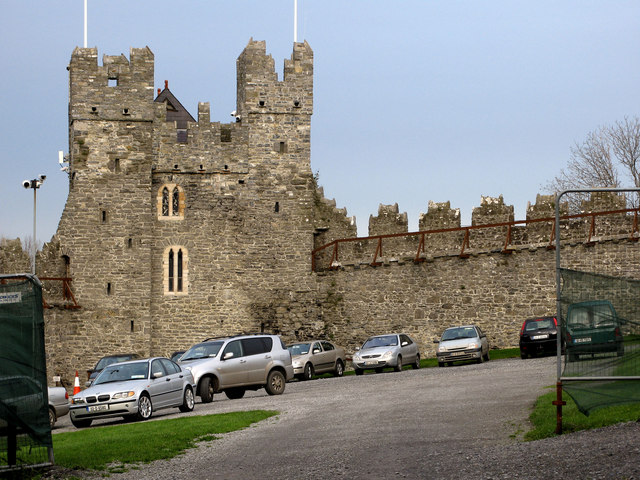 Constable Tower, Swords Castle, Swords, County Dublin, Ireland Swords Castle was built around 1200 as an Episcopal manor. It is 5-sided, enclosing a courtyard of considerable size.The tower in view at the north end of the wall was the residence of the Constable of the Castle. The crenellations are 15th century.